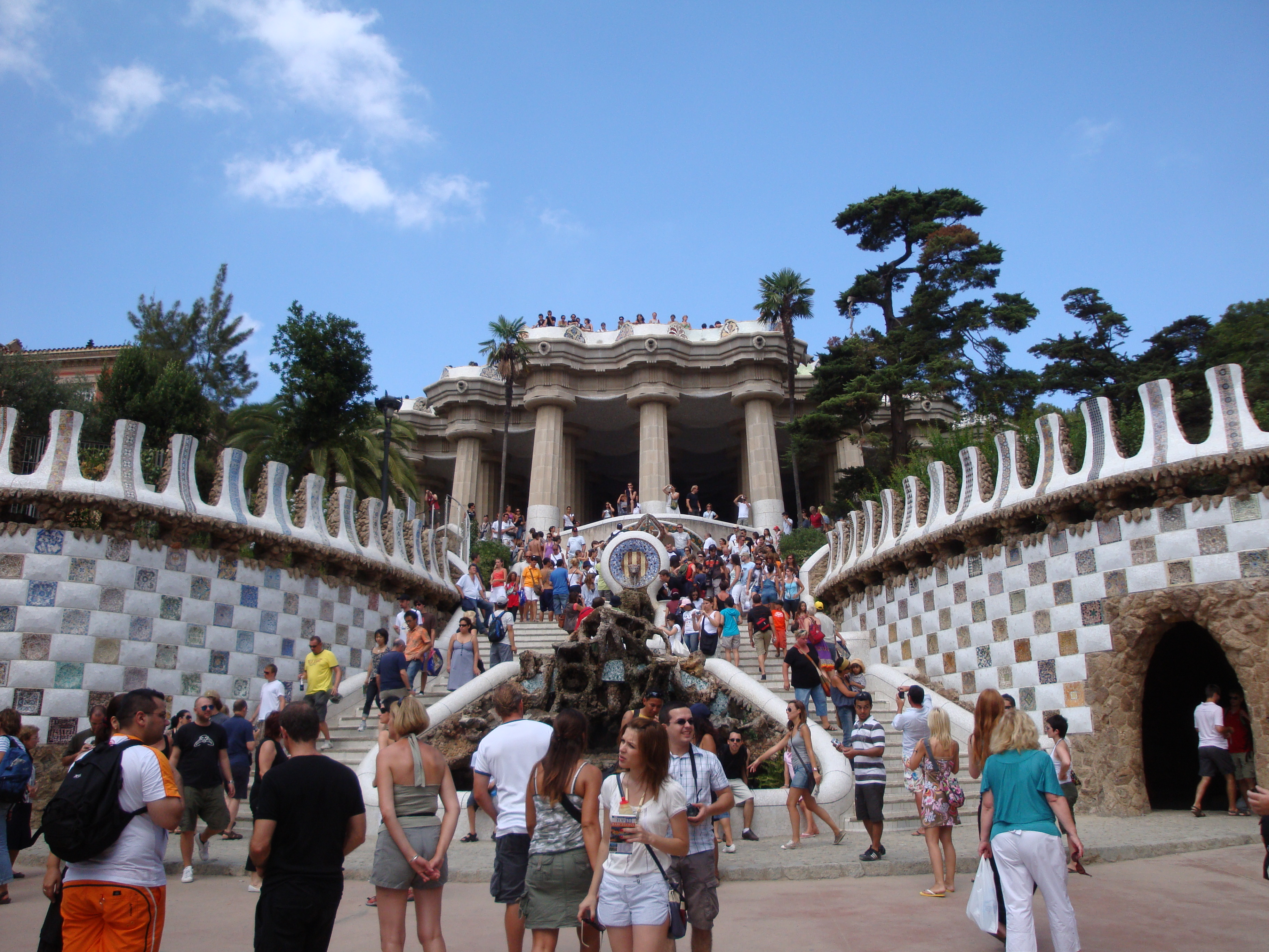 Parc Güell